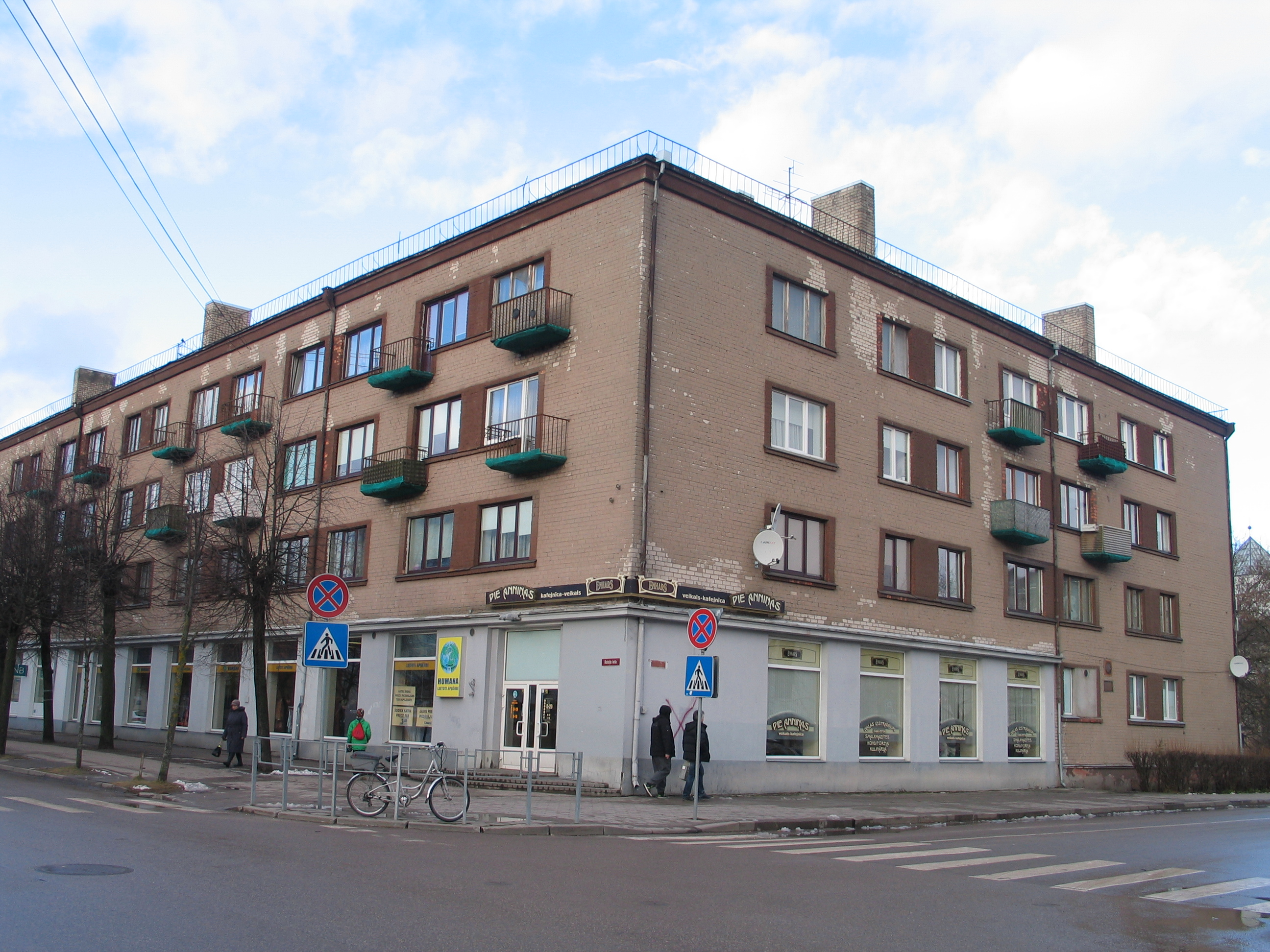 The corner of Katoļu and Driksas streets in Jelgava